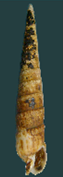 Shell of Terebra cf. formosa.